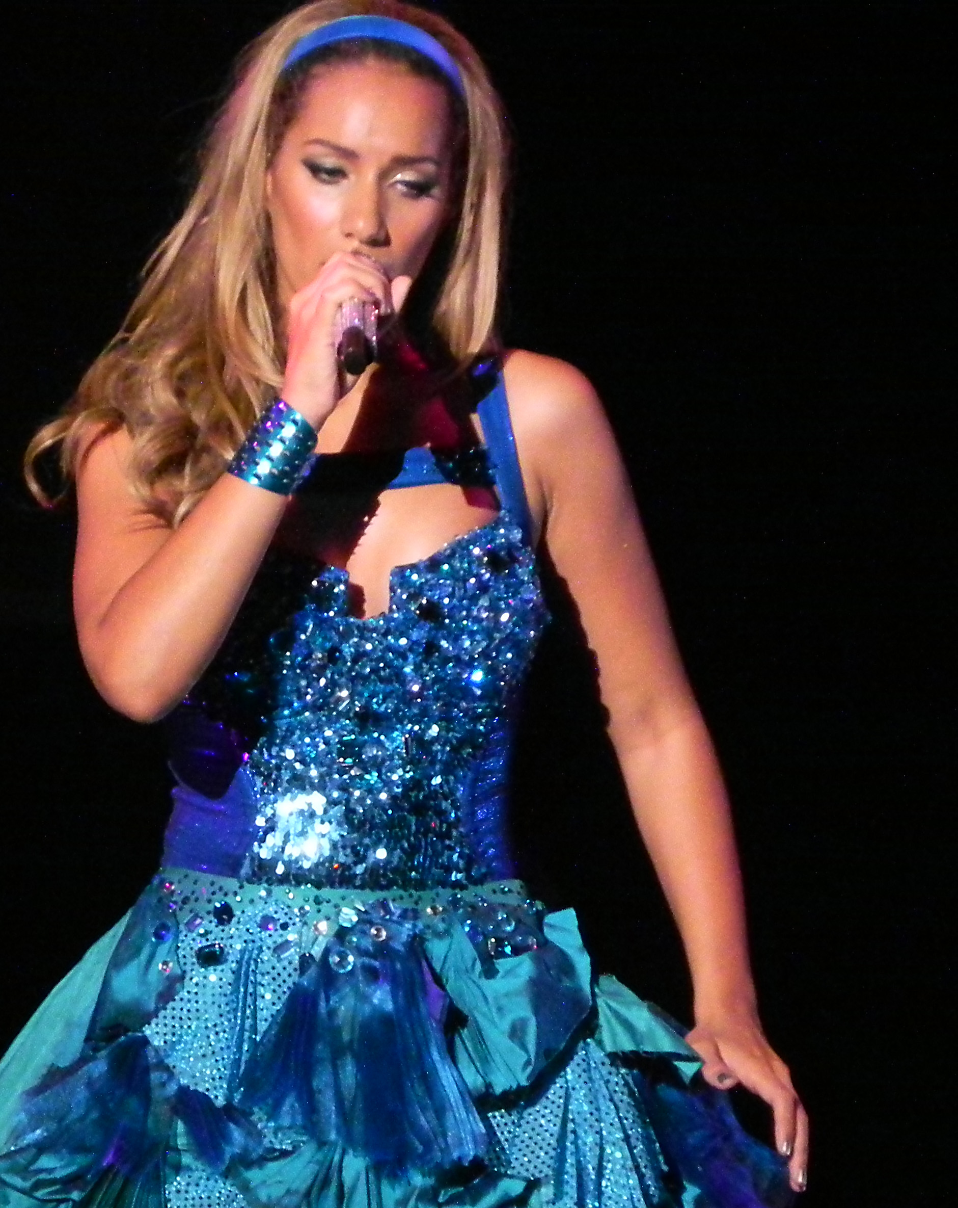 Lewis performing live June 2nd 2010